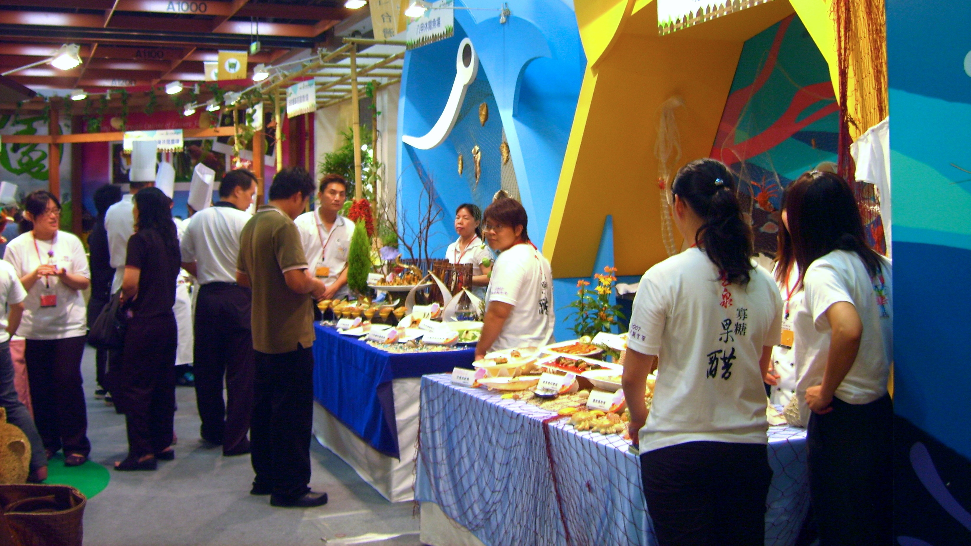 2007 Taiwan Culinary Exhibition - Leisure Pavilion.